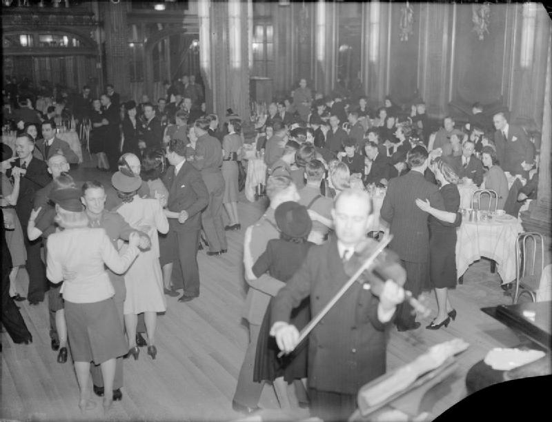 London in the Spring of 1941- Everyday Life in London, England A tea dance in progress somewhere in the West End of London. A violinist plays for the mix of civilians and soldiers on the dance floor. Those not dancing enjoy the music from the comfort of their tables, visible on the right hand side of the photograph.